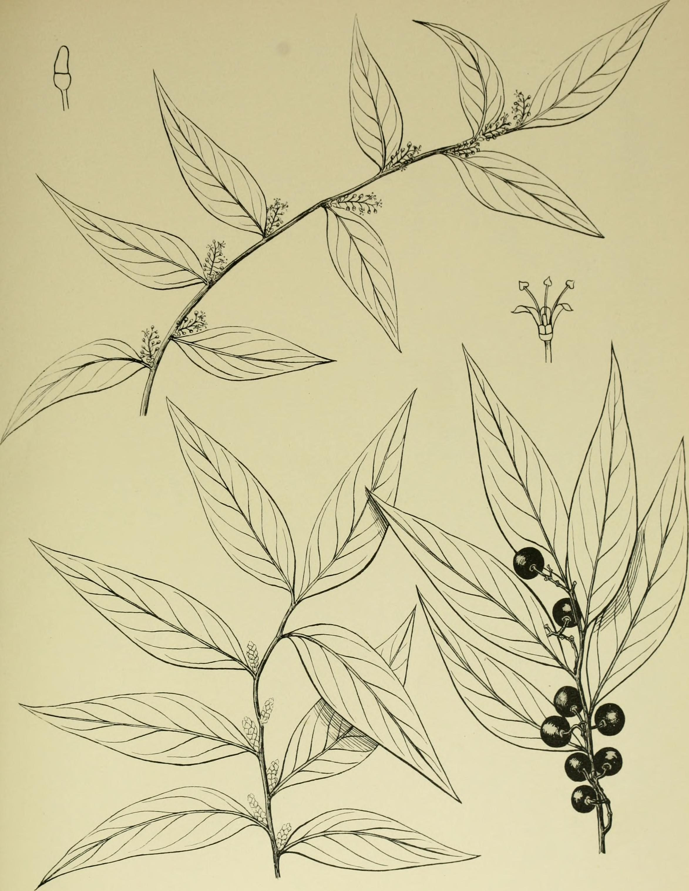 Title: Nova Guinea : résultats de l'expédition scientifique néerlandaise à la Nouvelle-Guinée .. Year: 1909 (1900s) Authors: Lorentz, H. A. (Hendrik Antoon), 1853-1928 Herderschee, A. Franssen Beaufort, L. F. de Pulle, A. (August), 1878-1955 Rutten, L. (Louis), 1884- Subjects: Plants Publisher: Leiden, E.J. Brill Text Appearing Before Image: Autores et B. J. van Tongeren del. ; B. J. van Tongeren lith Fa. P. W. M. Trap impr. Tab. CXLIX.Gjellerupia papuana Lautb. la-Guinea. VIII. C. Lauterbach, Opiliaceae. Ta/ CXLIX. Text Appearing After Image: GJELLERUPIA PAPUANA LAUTERBACH. 8. J. VAN TONGEREN, det. ^LlOTYPIE, VAN LEER, AMSTERDAM. CL. Rhododendron Beyerinckianum Kds. /.• b. Blattunterseite 5/,. c. Blute */,. d. e, f. Schuppen der Blattunterseite 30/!- Nvva-Guinea. VIII. — S. H. Koorhers, Ericaceae.